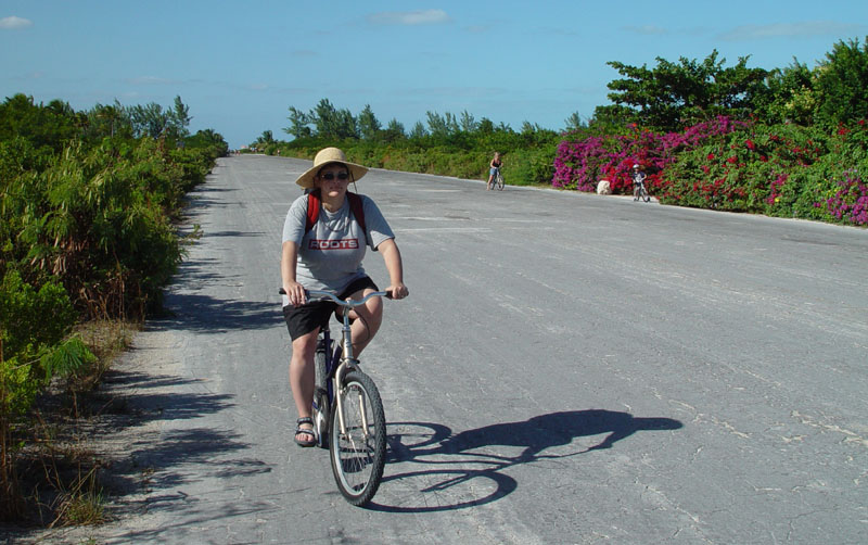 Along the runway at Castaway Cay